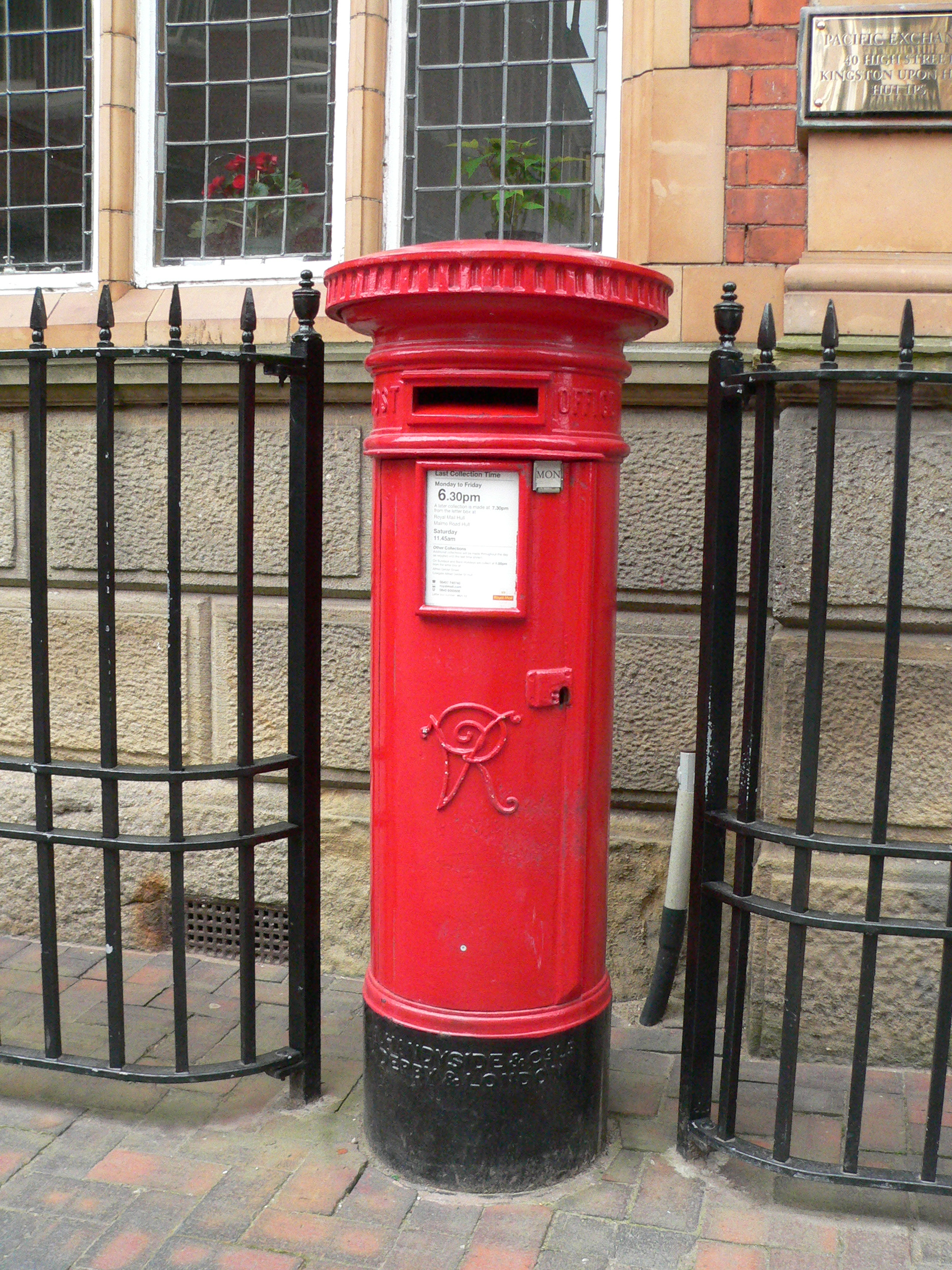 Victorian Type B pillar box outside 40 High Street, Kingston-upon-Hull, East Riding, England